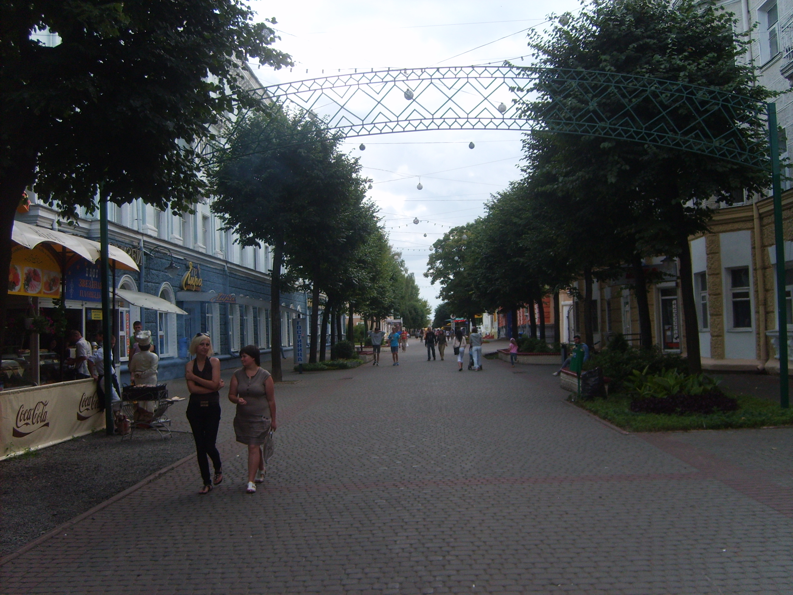 Mogilev, Leninskaja str.